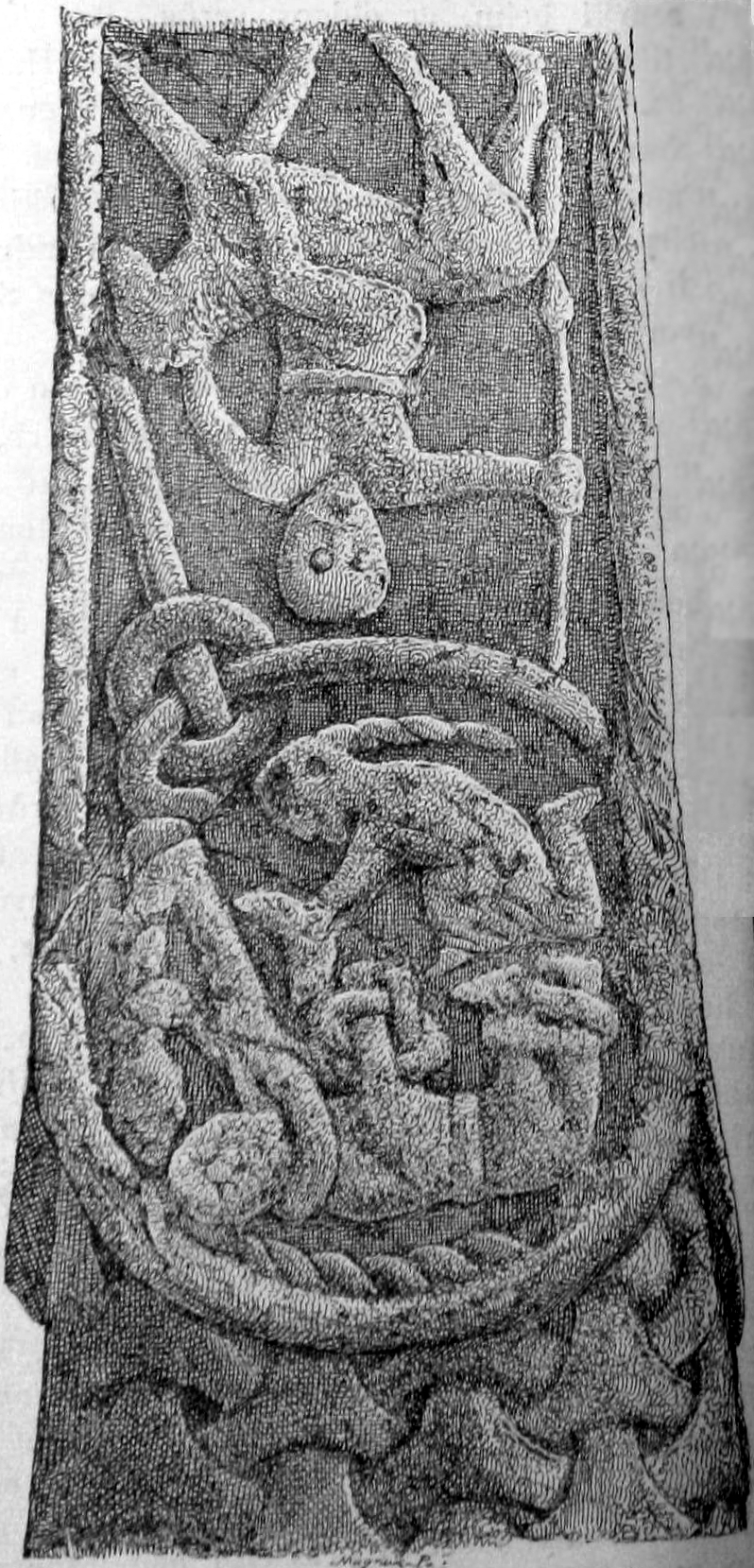 A part of the Gosforth Cross showing, among other things a figure with a horn above a bound figure, usually interpreted to be Loki and Sigyn from Norse mythology. Signed "Magnus P".